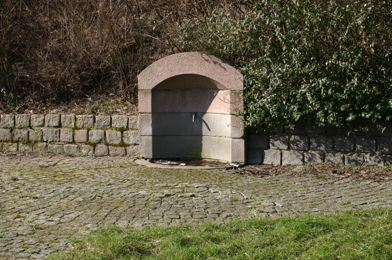 A source bearing the name of a local, Danish saint: Saint Niels (Sanct Nicolaus).